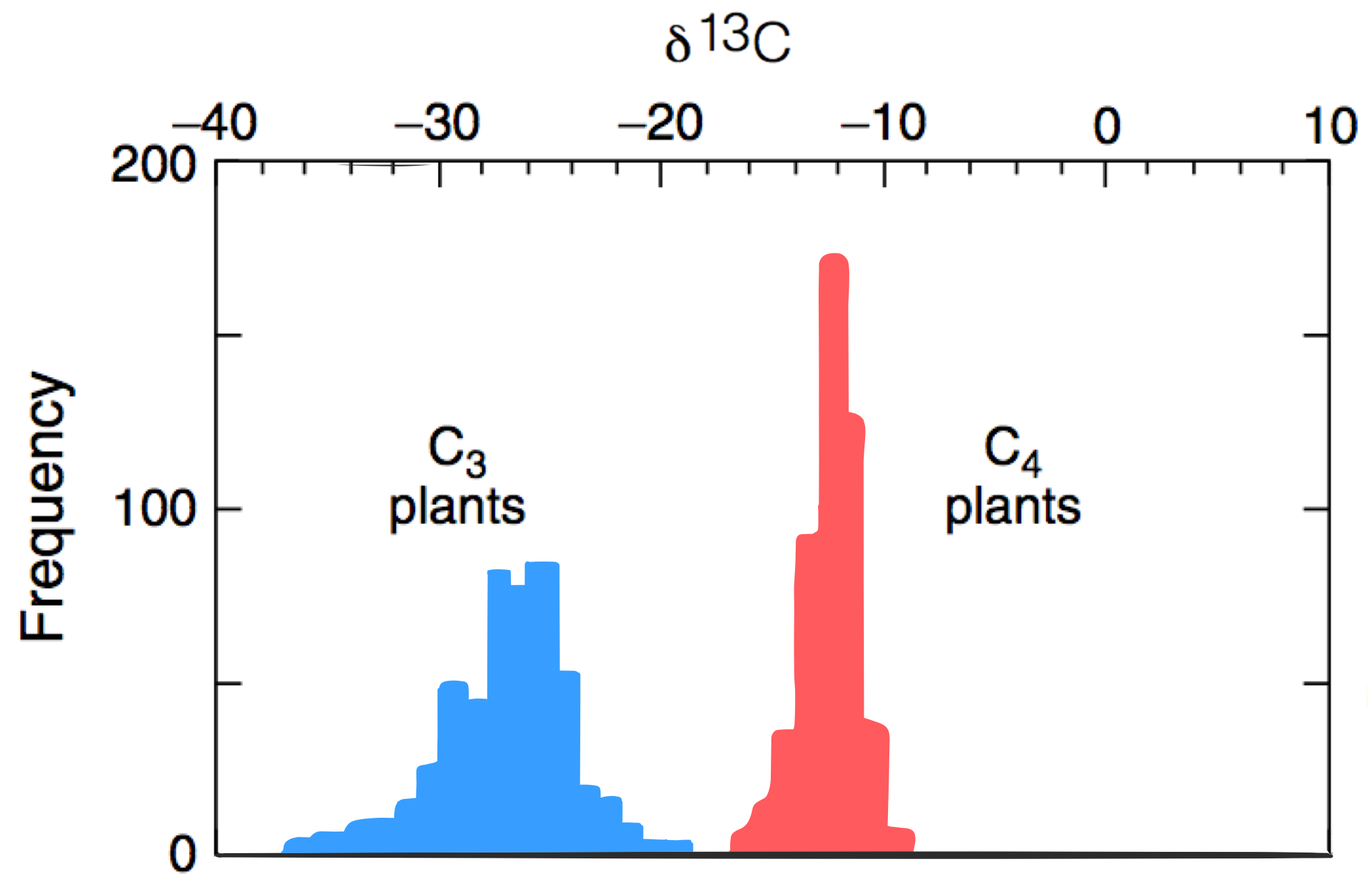 Histograms of the carbon isotope ratios of modern grasses (adapted from Cerling et al.,1997)